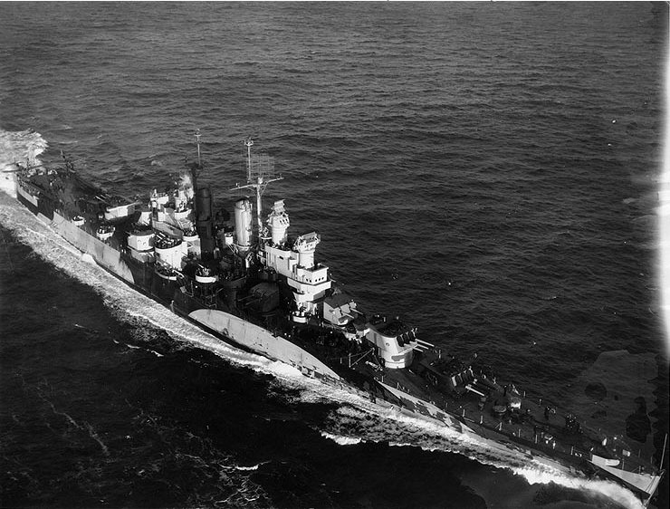 The U.S. Navy light cruiser USS Miami (CL-89) underway at sea, circa early 1944. The ship is painted in Camouflage Measure 32, Design 1d.